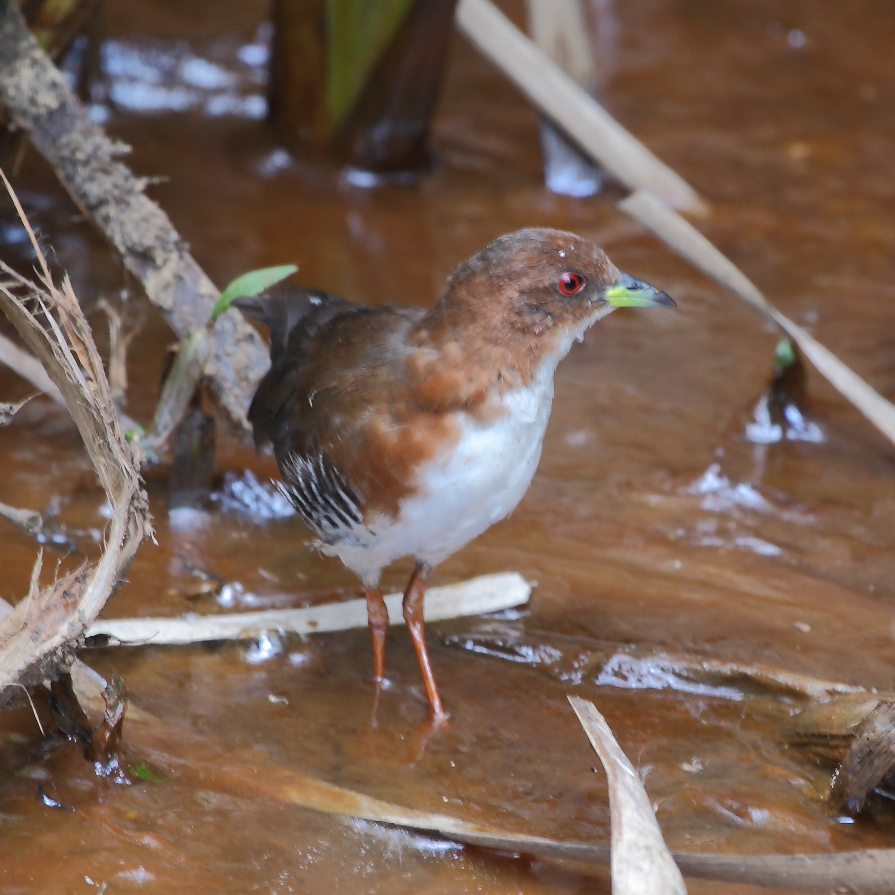 Red-and-white Crake at São Luiz do Paraitinga - SP - Brazil